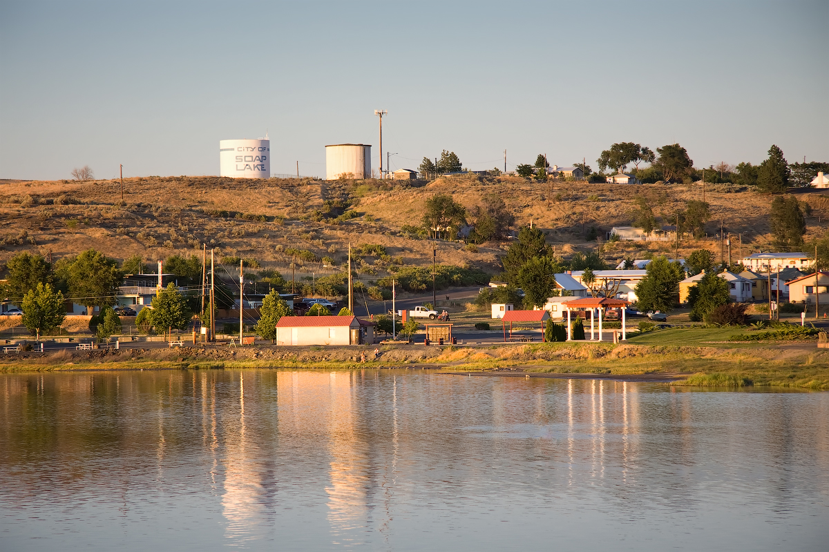 City of Soap Lake. Taken by Steven Pavlov. August, 2011.